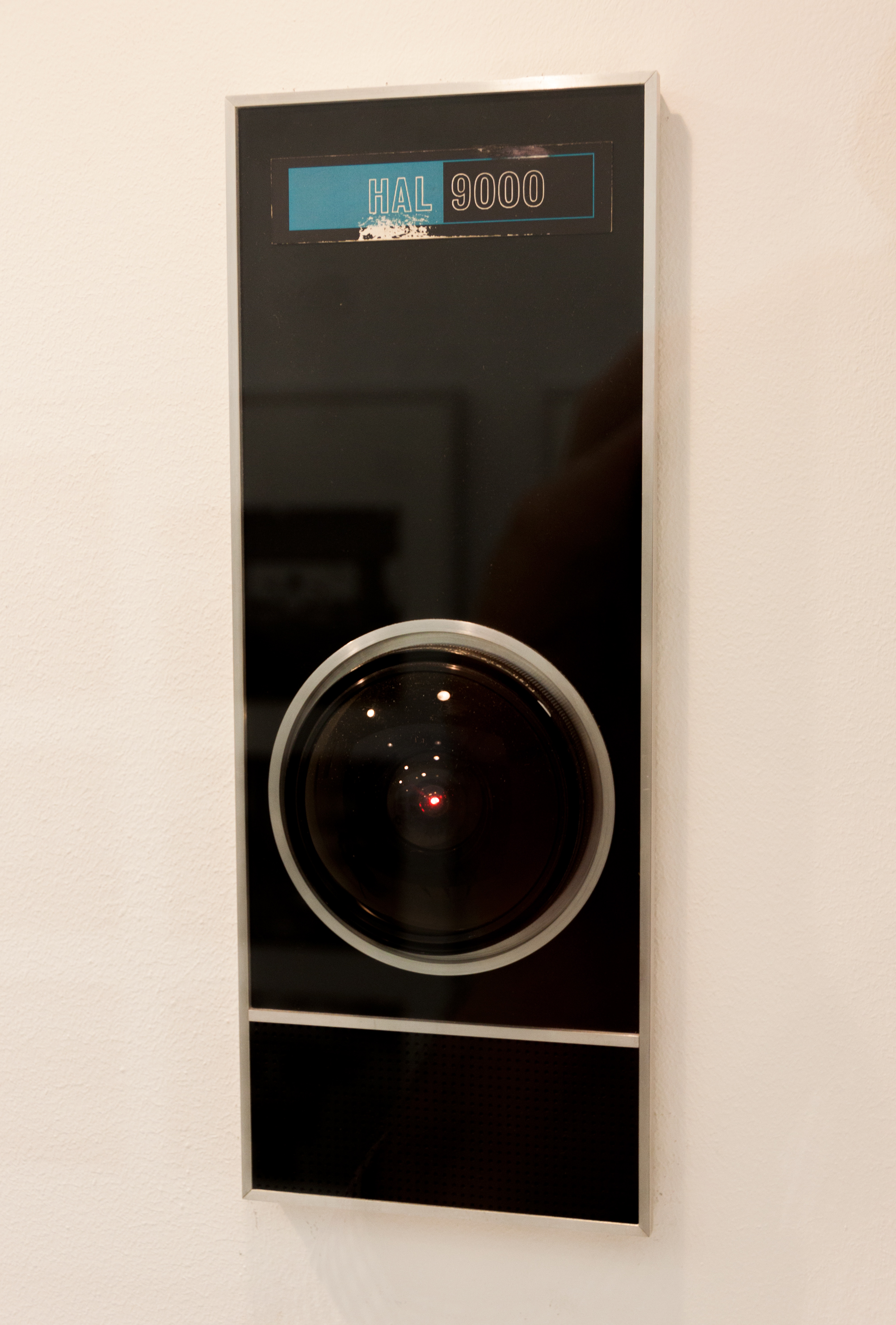 Stanley Kubrick: The Exhibition at the National Museum, Krakow, Poland.